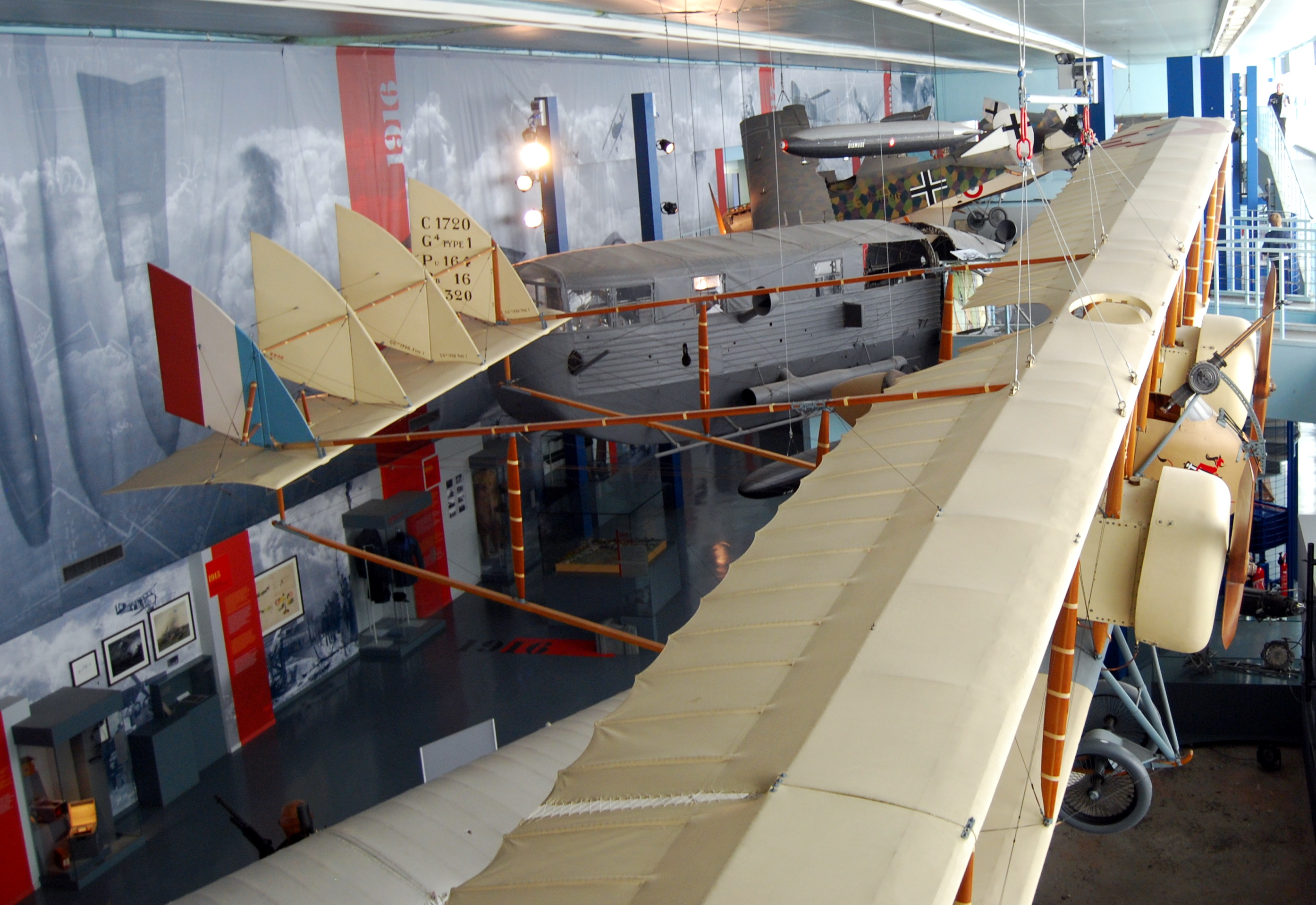 Photo ref; DSC1121-2012